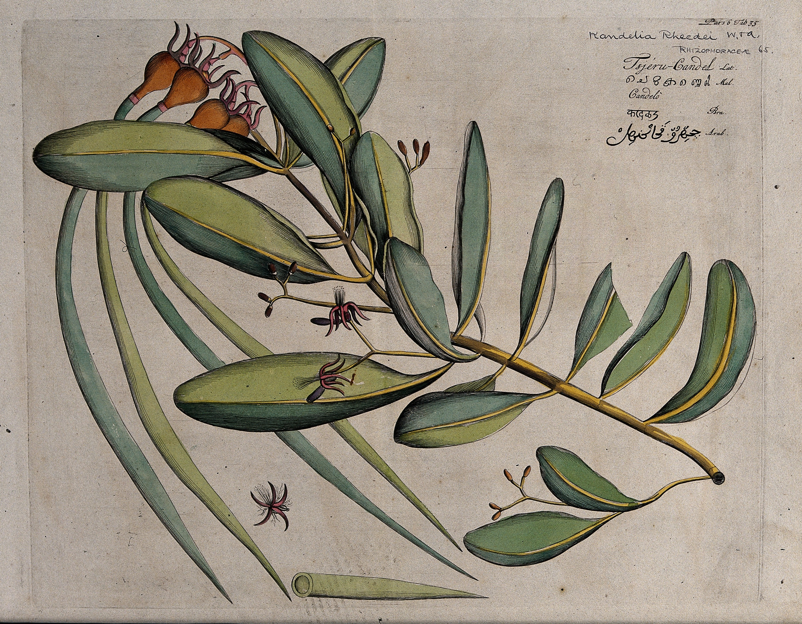 tsjerou-kandel, Rheede, Hortus Malabaricus, vol. 6:63, tab. 35 Kandel or Mangrove plant (Kandelia candel (L.) Druce): branch with flowers and fruit and separate flower and sectioned fruit. Coloured line engraving. Iconographic Collections Keywords: engravings; botany - pre-linnaean works; mangrove plants; tannin plants; Rhizophoraceae; plants, useful - india; botany - india - malabar coast; Hendrik Adriaan van Reede tot Drakestein; scientific illustrations